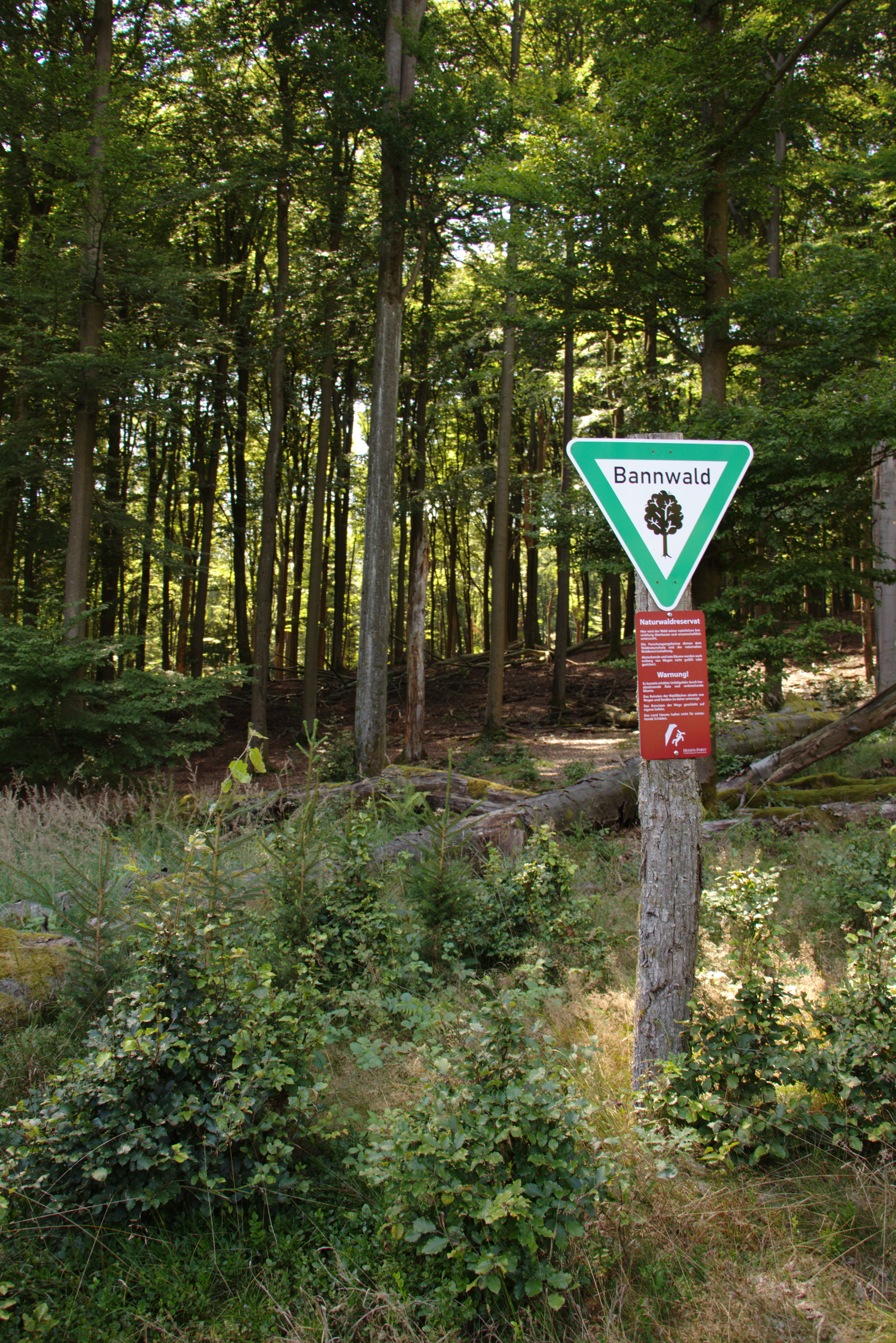 Bannwald "Schoenbuche" between Hosenfeld and Neuhof, Hesse, Germany